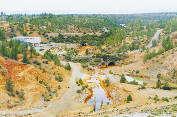 Looking downstream from Spring Creek Dam, California. (Apparently, this image is reversed. Should be fixed.)